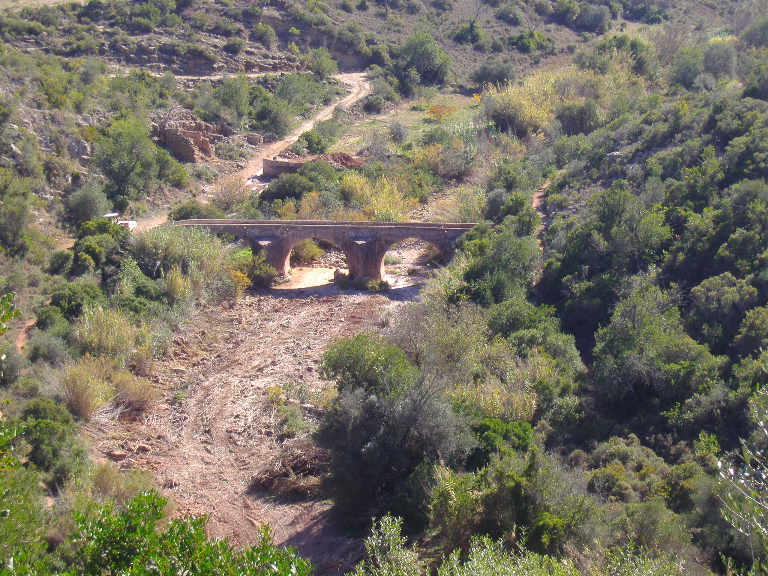 Bridge across the Quarteira River, near the village of Paderne, Algarve, Portugal. Viewed from the Castle of Paderne